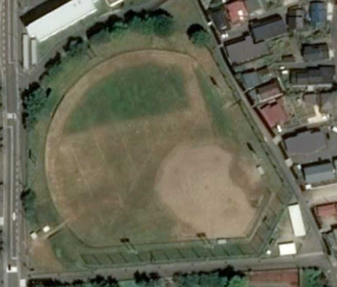 Satellite view